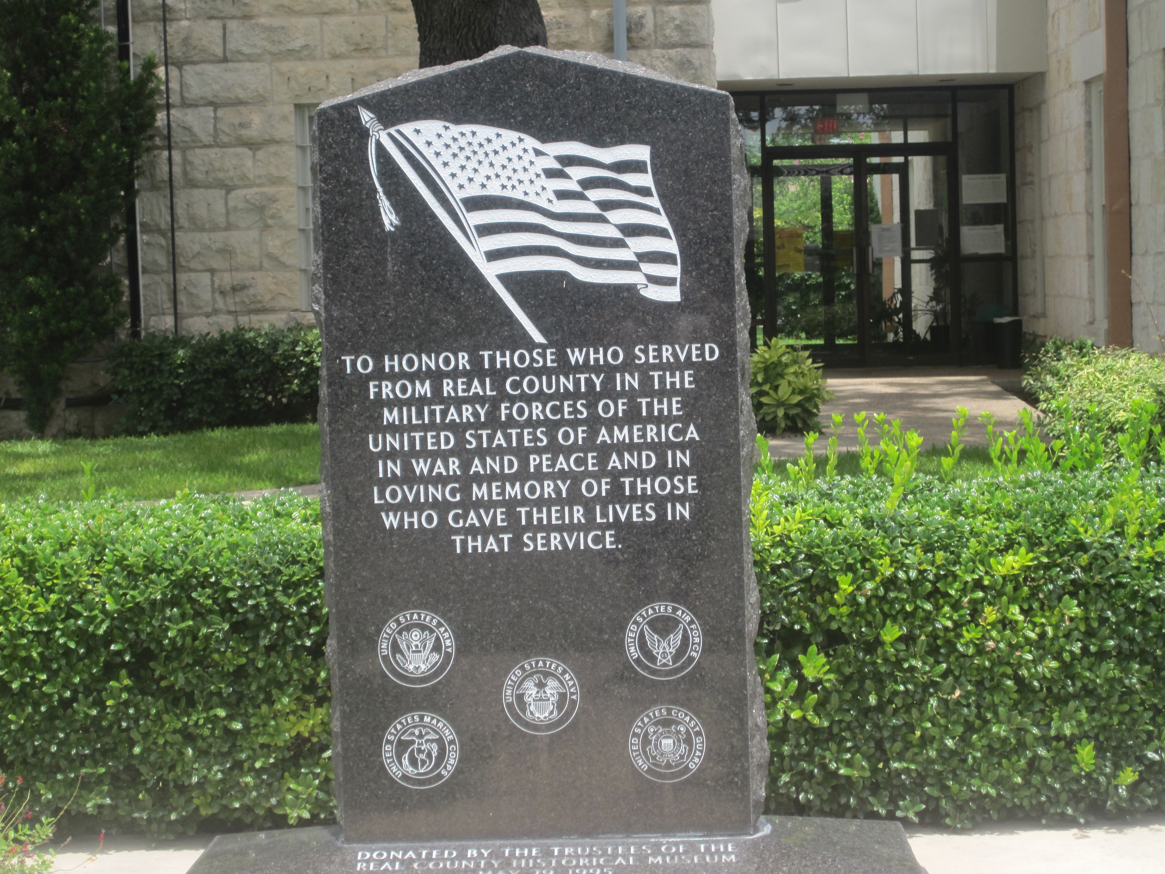 Veterans Monument, Real County Courthouse, Leakey. I took photo with Canon camera in Leakey, TX.